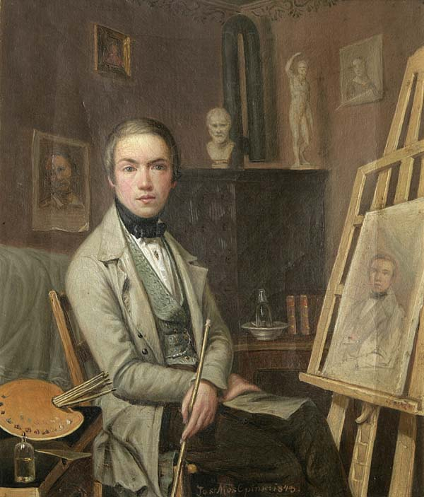 probably a self-portrait